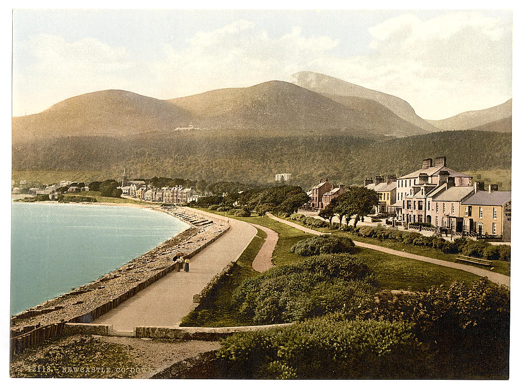 [Newcastle. County Down] [between ca. 1890 and ca. 1900]. 1 photomechanical print : photochrom, color. Notes: Title from the Detroit Publishing Co., catalogue J--foreign section. Detroit, Mich. : Detroit Photographic Company, 1905.. Print no. "12118". Forms part of: Views of Ireland in the Photochrom print collection. Subjects: Northern Ireland--County Down. Format: Photochrom prints--Color--1890-1900. Repository: Library of Congress, Prints and Photographs Division, Washington, D.C. 20540 USA, Part Of: Views of Ireland (DLC) 2001700656 More information about the Photochrom Print Collection is available at Persistent URL: Call Number: LOT 13406, no. 045 [item] This image is available from the United States Library of Congress's Prints and Photographs division under the digital ID missing.This tag does not indicate the copyright status of the attached work. A normal copyright tag is still required. See Commons:Licensing for more information.